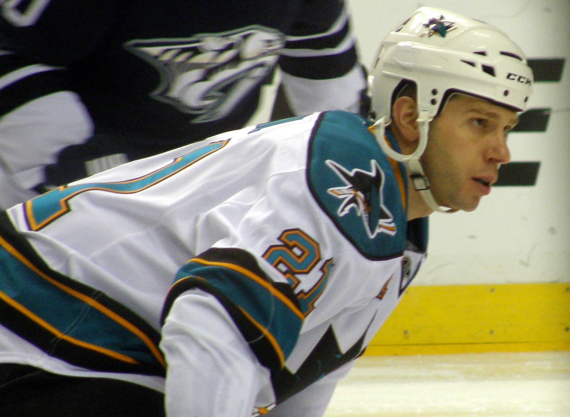 21, Scott Nichol, C, SJS San Jose Sharks at Nashville Predators, February 6, 2010